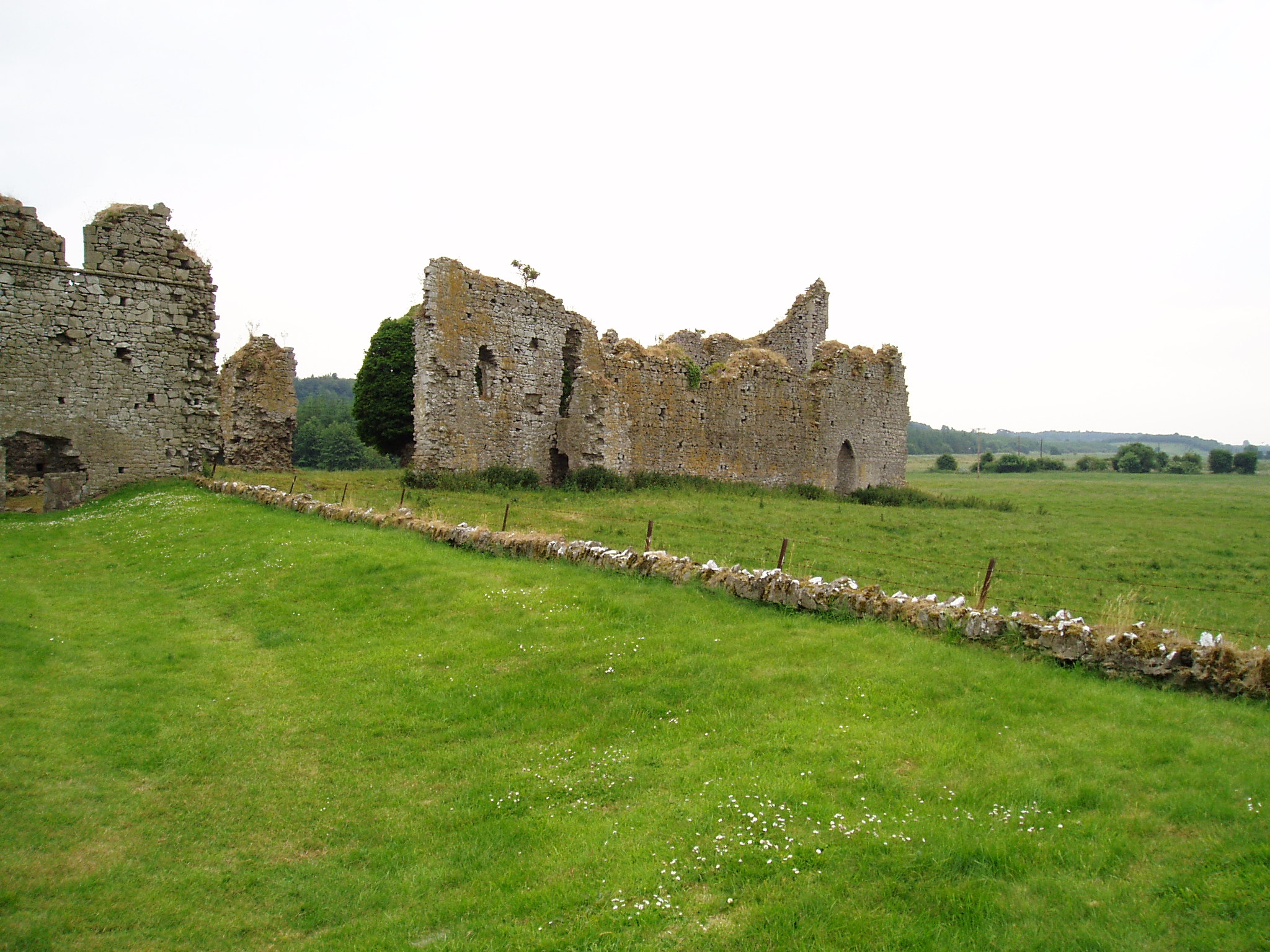 Ballyboggan Abbey, Co. Meath, Ireland